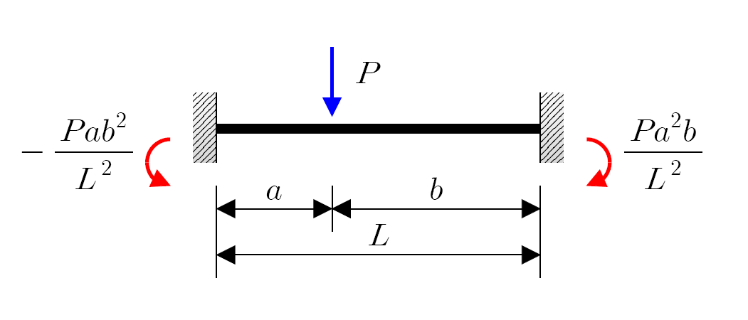 fixed end moments - concentrated load